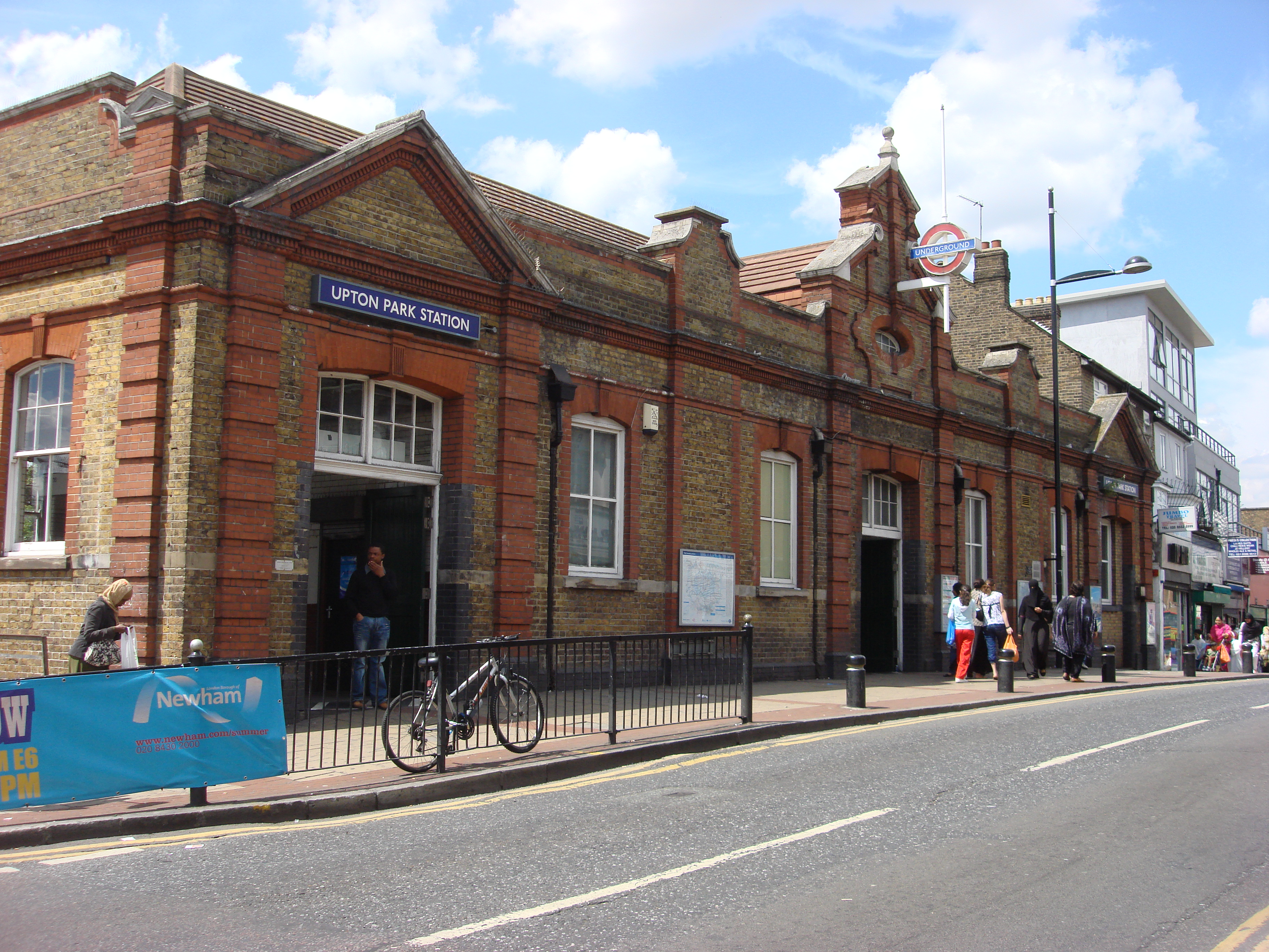 Upton Park tube station, main building